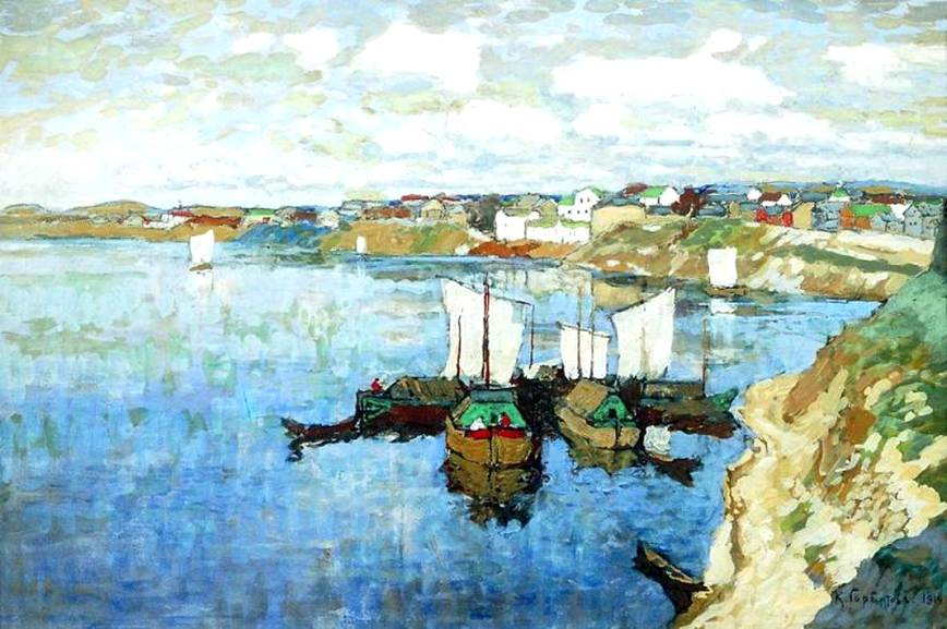 This is picture of russian postimpressionist painter Konstantin Gorbatov "Псков. На реке Великой." (Pscov city. On the river Velikaya) was made in 1914. On the picture panted the river Velikaya inside Pscov city.